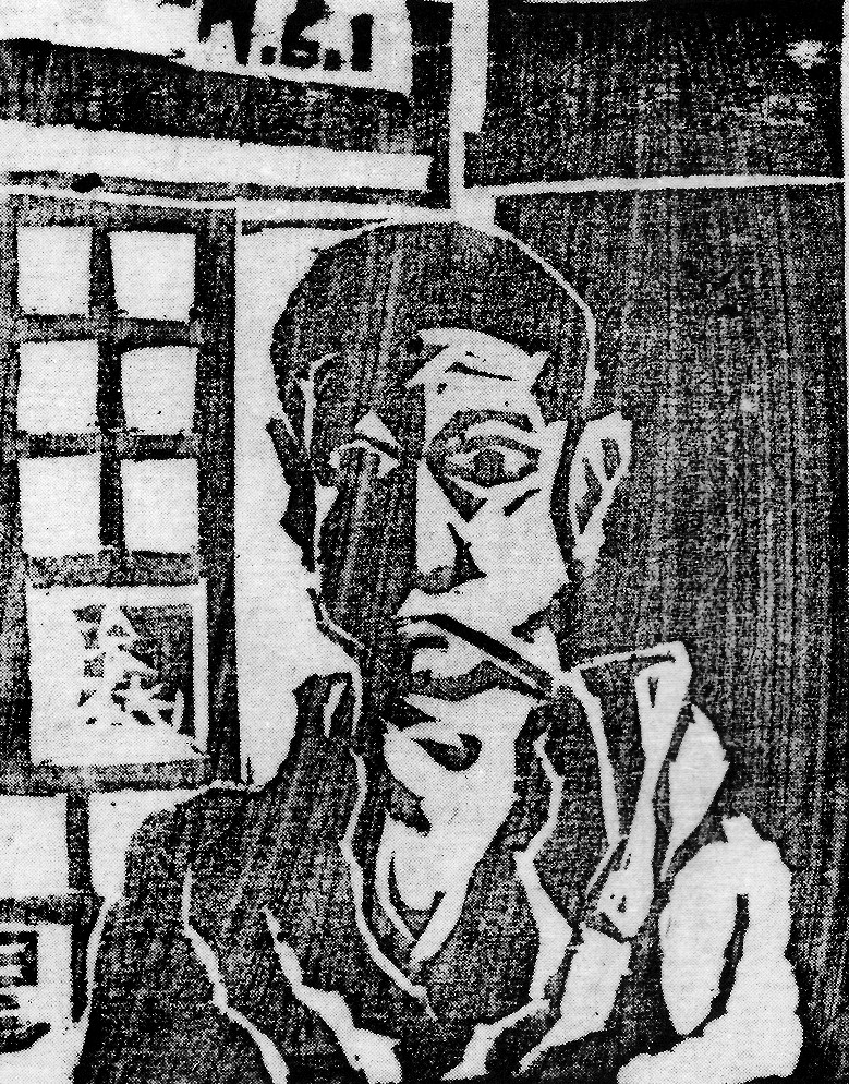 Fujimaki by himself